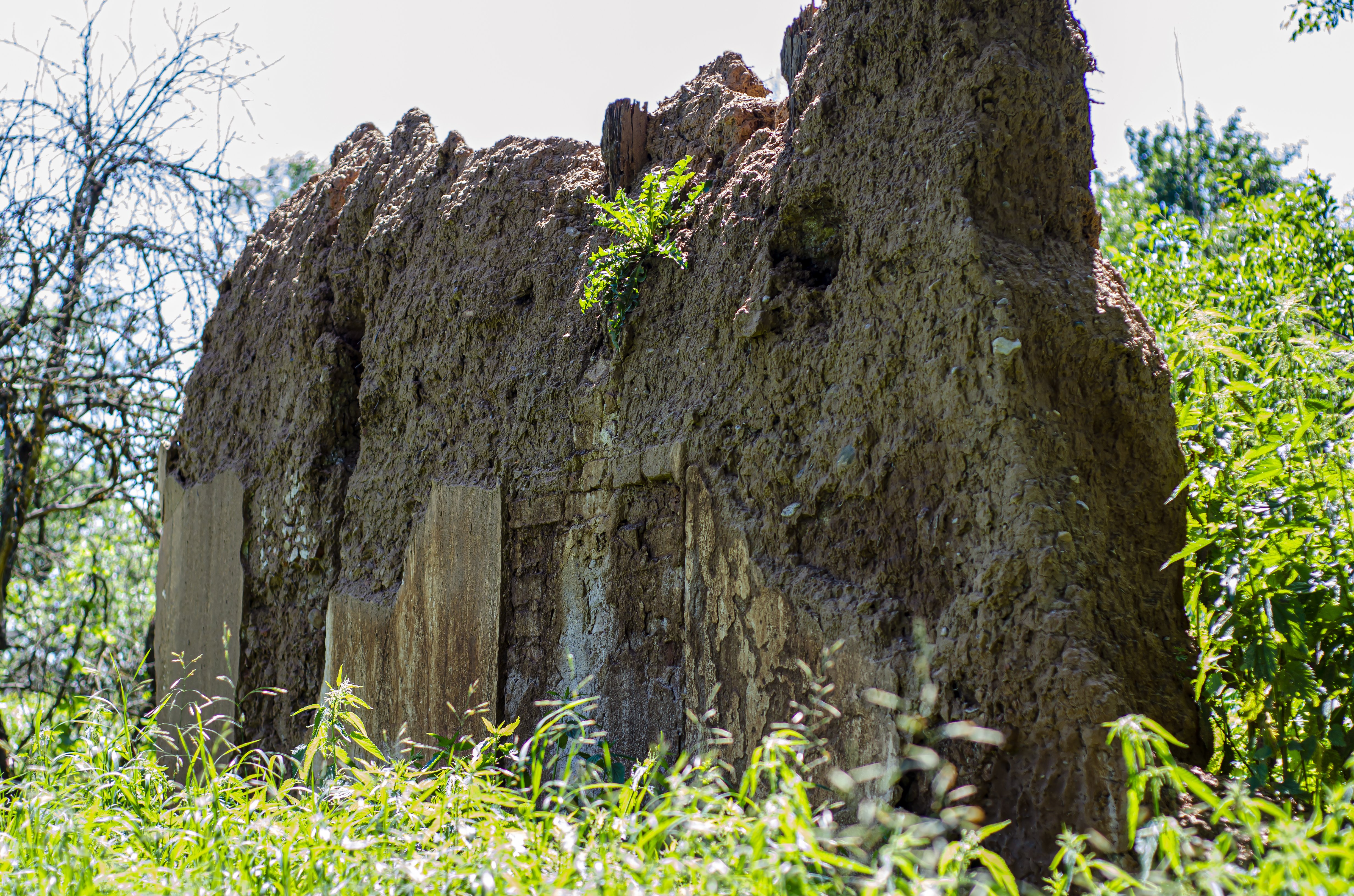 Remains of old masonry. Krikaly, Dunilavičy, Pastavy District, VitebskRegion, Belarus